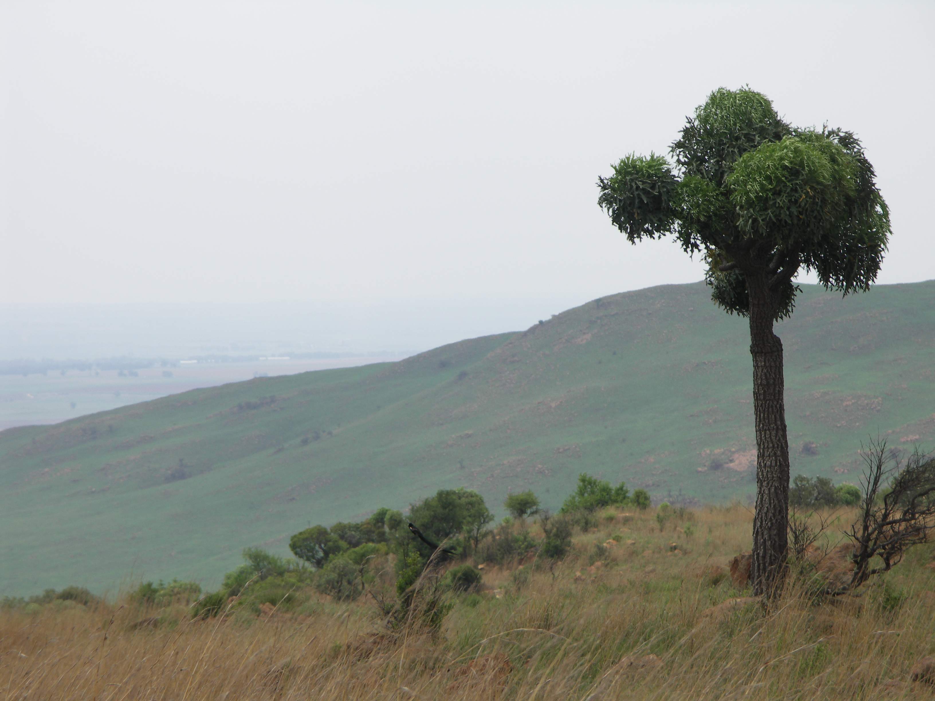 A Highveld cabbage tree (Cussonia paniculata) at Suikerbosrand Nature Reserve, Gauteng, South Africa